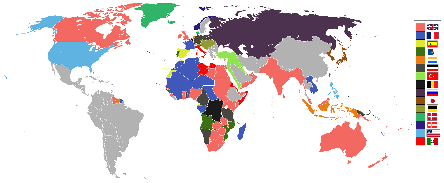 World empires and colonies in 1914, just before the First World War. Maps of world history BC 2000 · 1000 · 500 · 400 · 323 · 300 · 200 · 100 · 50 AD 1 · 50 · 100 · 200 · 250 · 300 · 400 · 500 · 700 · 750 · 820 · 900 · 1556 · 1700 · 1815 · 1859 Maps of colonization history 1492 · 1550 · 1600 · 1660 · 1754 · 1800 · 1812 · 1822 · 1885 · 1898 · 1914 · 1920 · 1936 · 1938 · 1945 · 1959 · 1974 · 1975 · 2007 Animated Map Maps of Cold War 1959 · 1980 · see also: Eastern Hemisphere only maps template (1300BC-1500AD) (this template: · view · discuss )